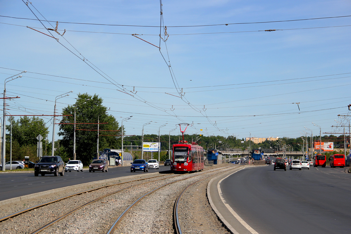 АKSM-843 on Yamashev avenue, Kazan, Russia